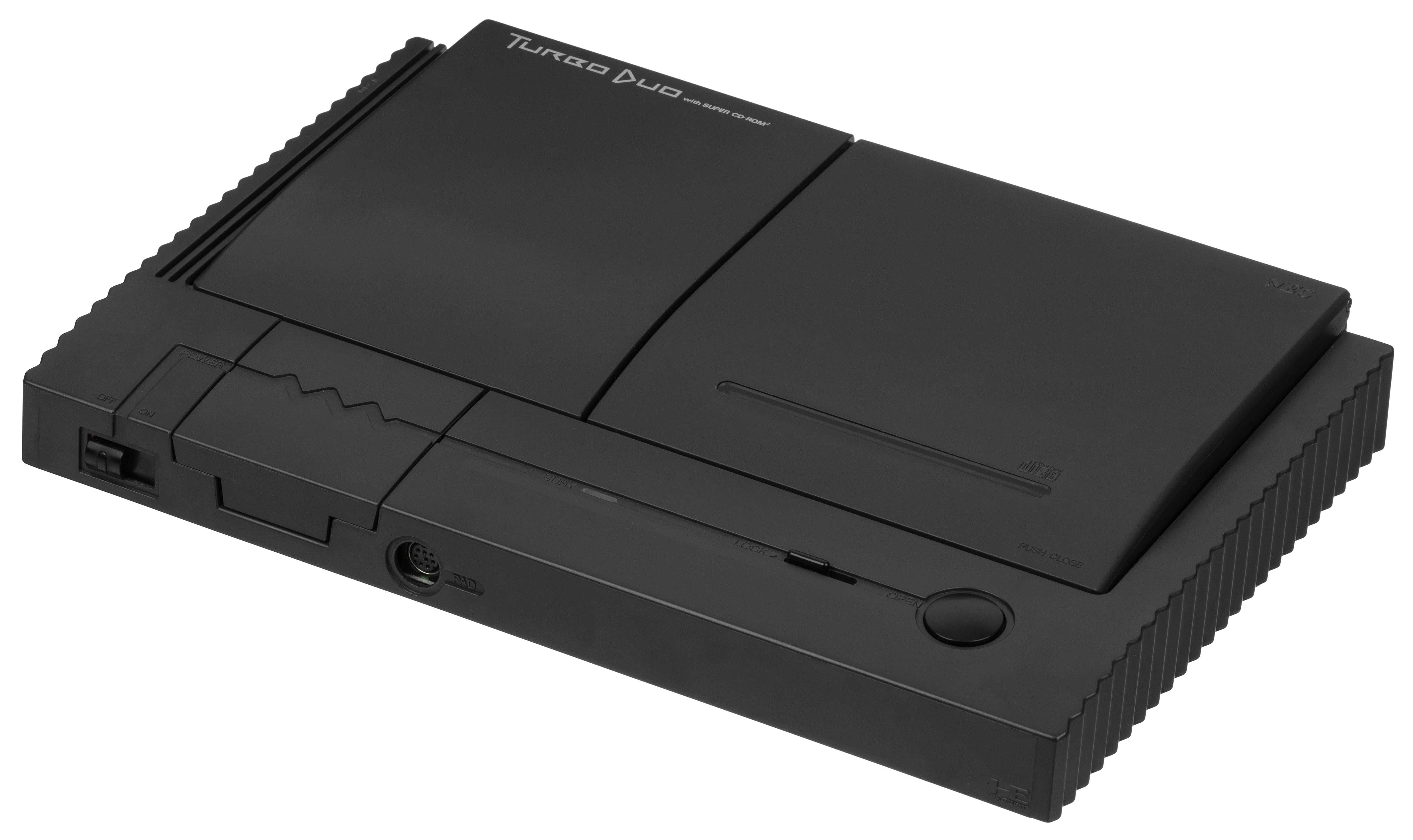 A frontal view of the TurboDuo. The TurboDuo was a gaming console by NEC that combined the TurboGrafx-16 system with the CD Drive into one unit. Released in late 1992 in North America, it would be the last console NEC would release to the Western market.